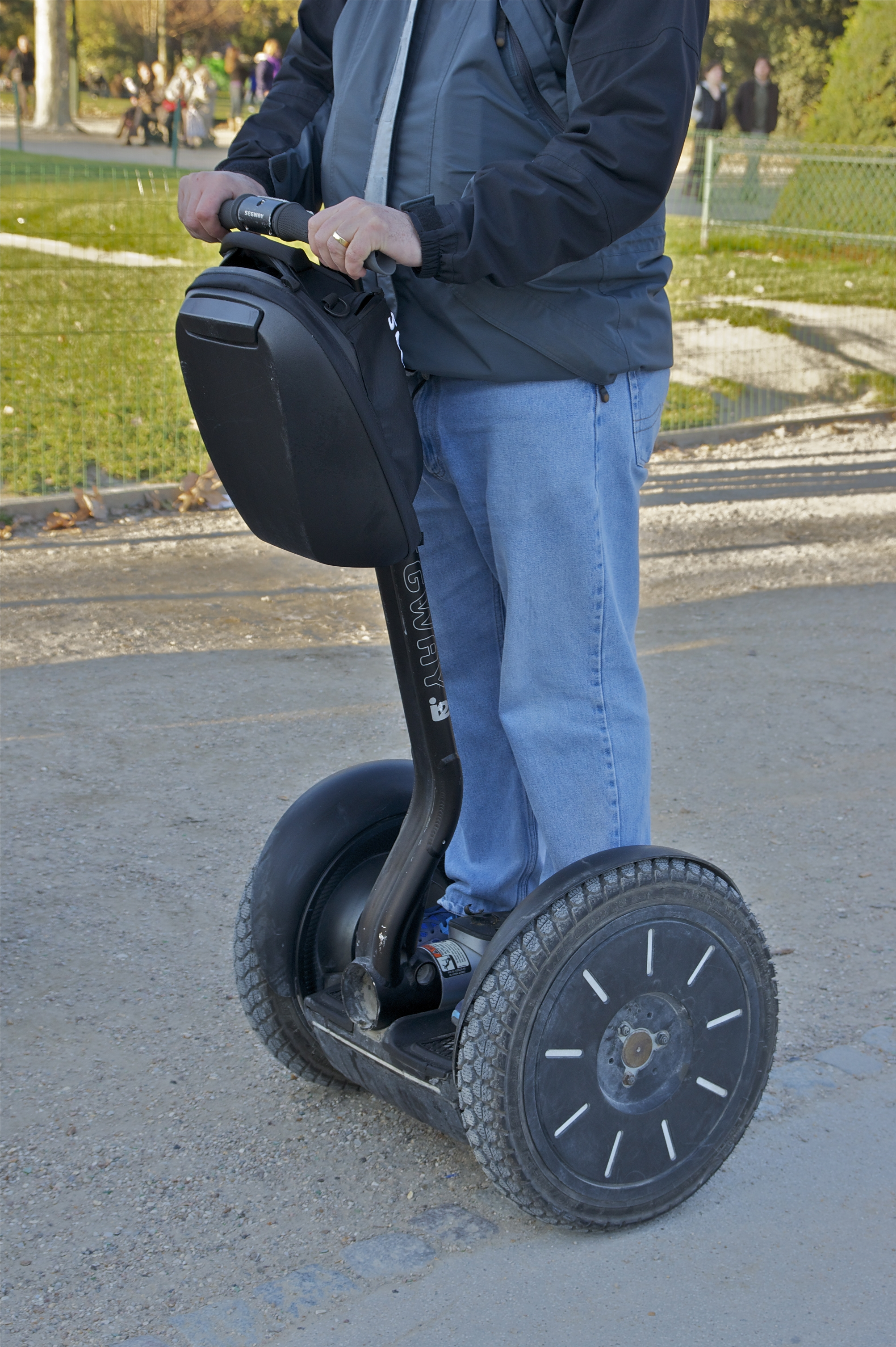 A "Segway", Champ-de-Mars, Paris.